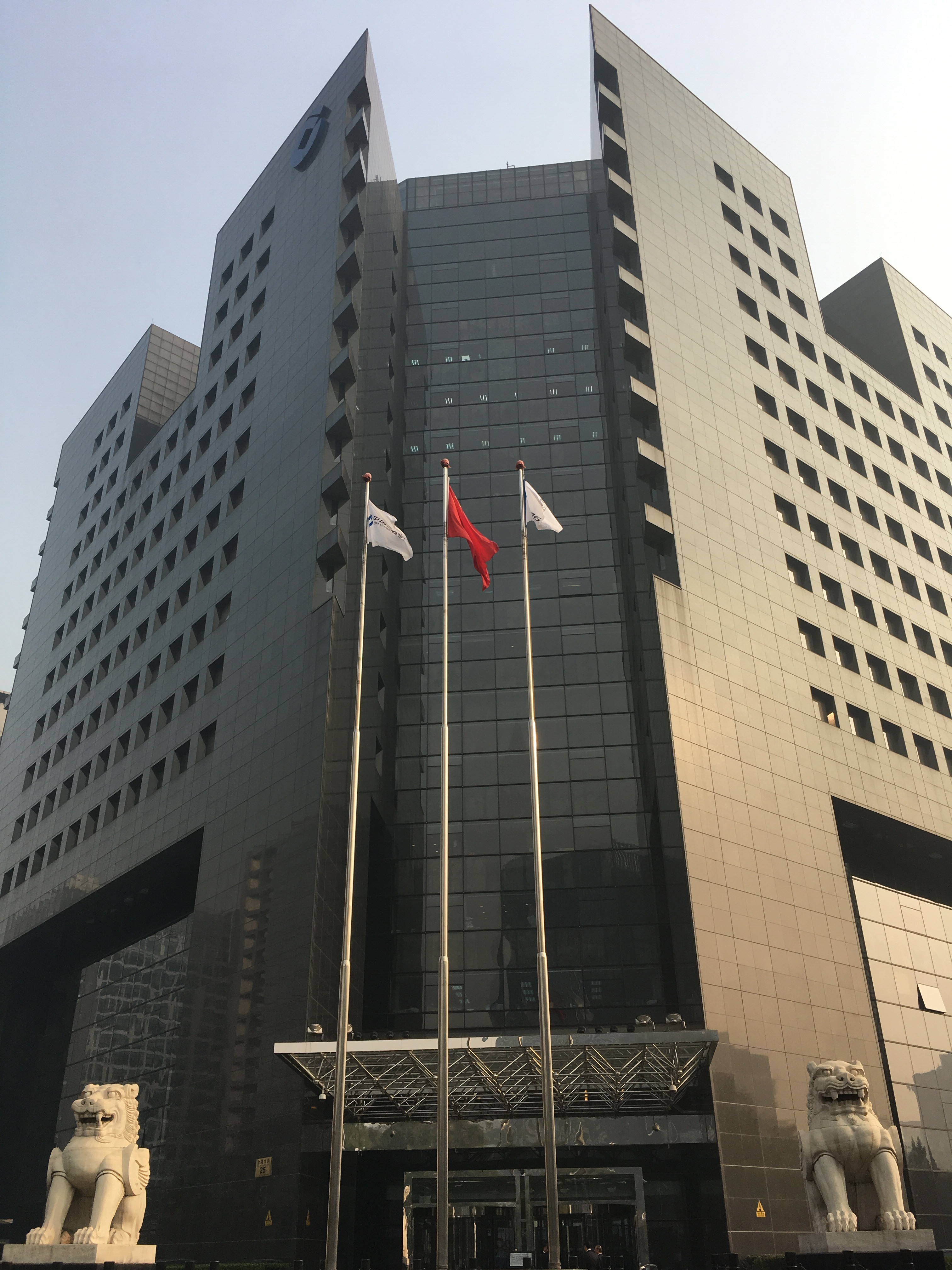 The headquarter of China Construction Bank in Beijing